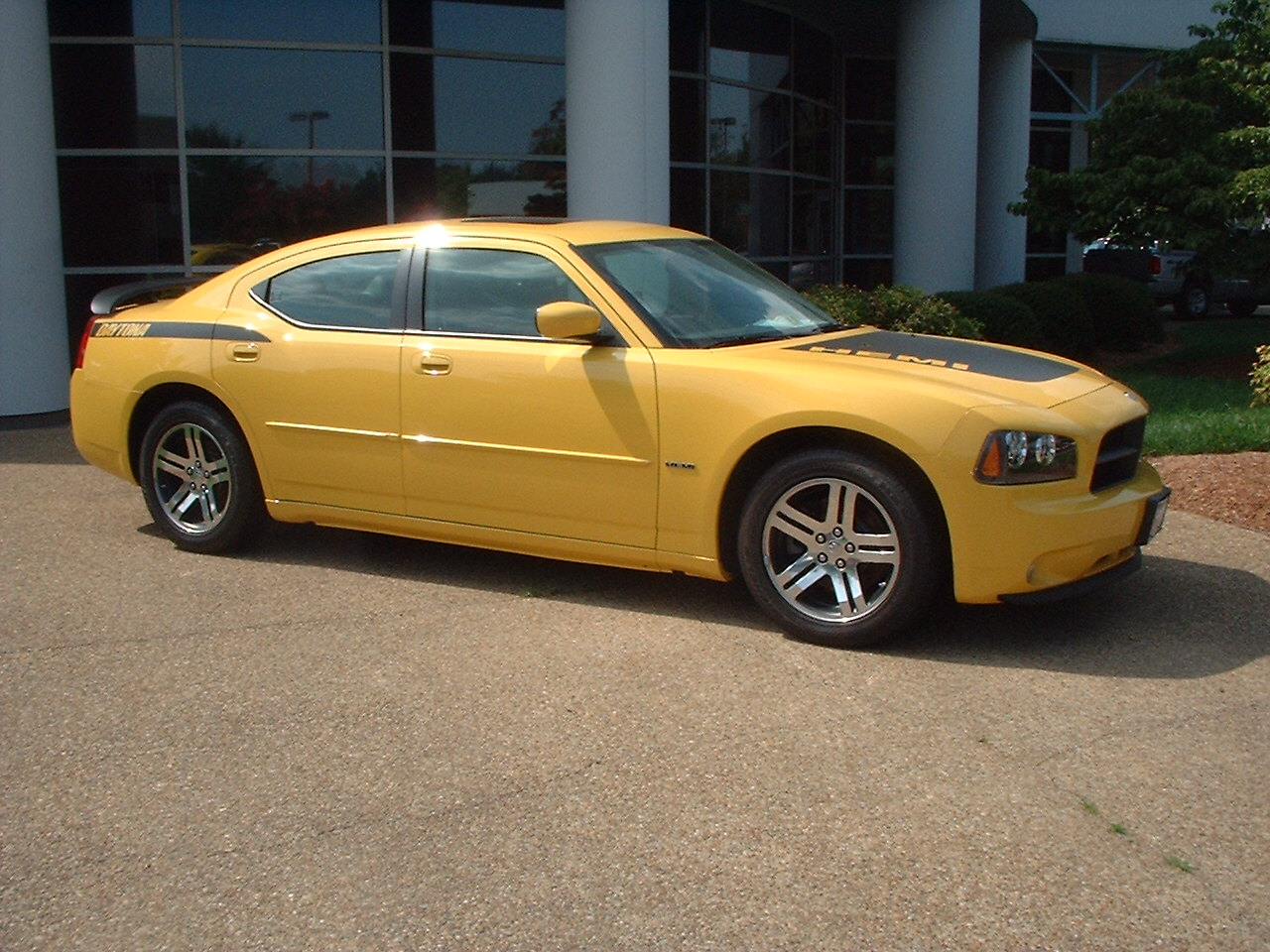 2006 Dodge Charger Daytona